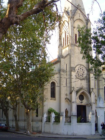 San José Church in Villa Crespo neighbourhood, Buenos Aires.